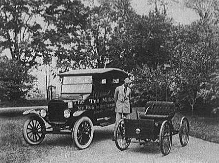 The first and the ten millionth Ford